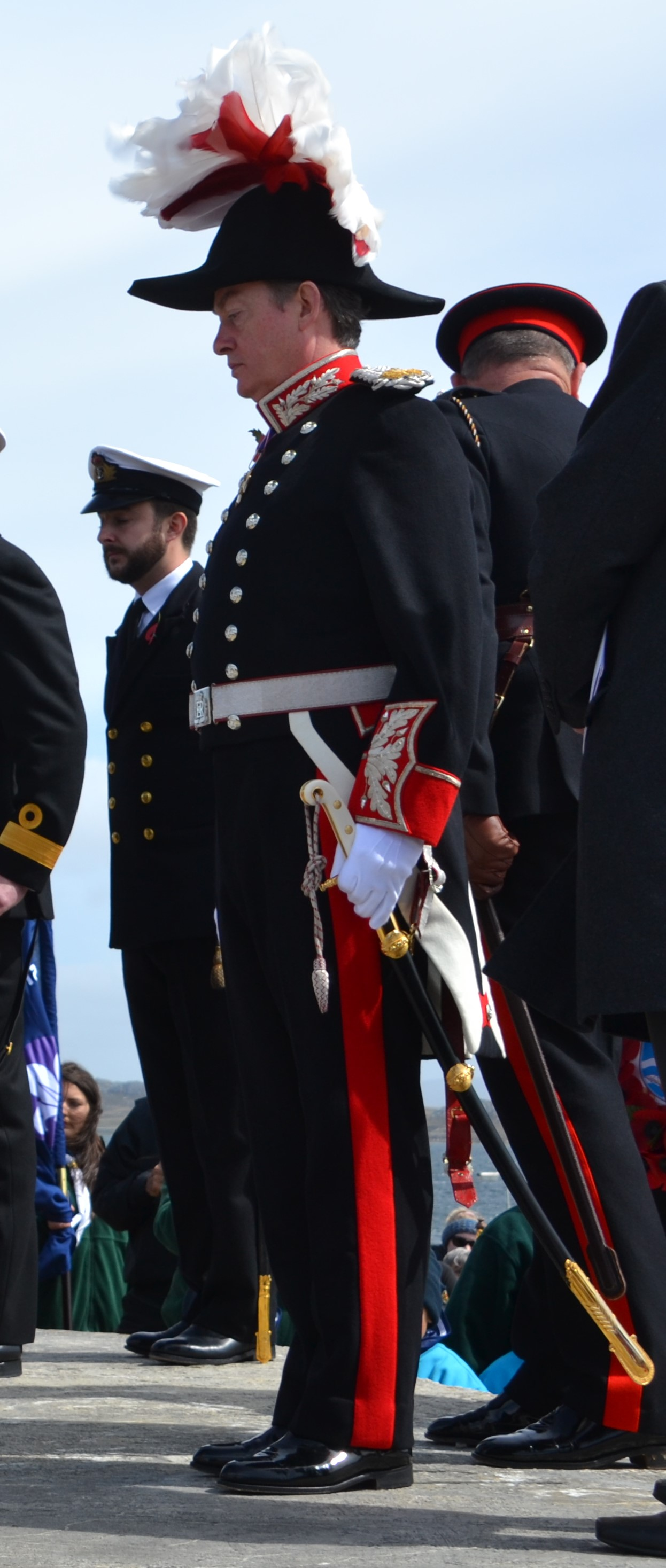 Governor of the Falkland Islands observing Remembrance Sunday, 2016.